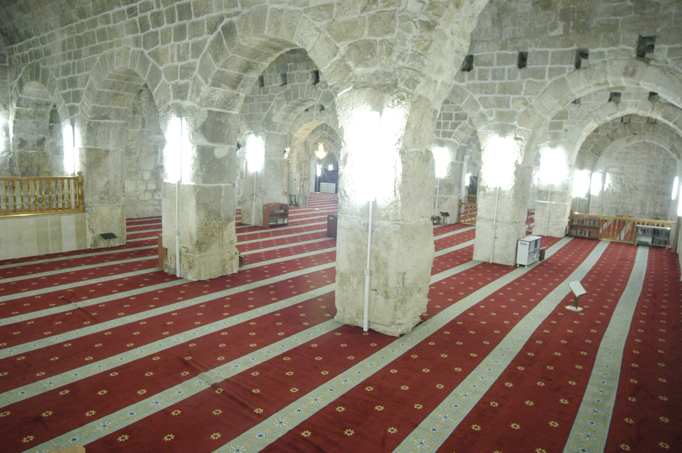 Al-Aqsa Mosque